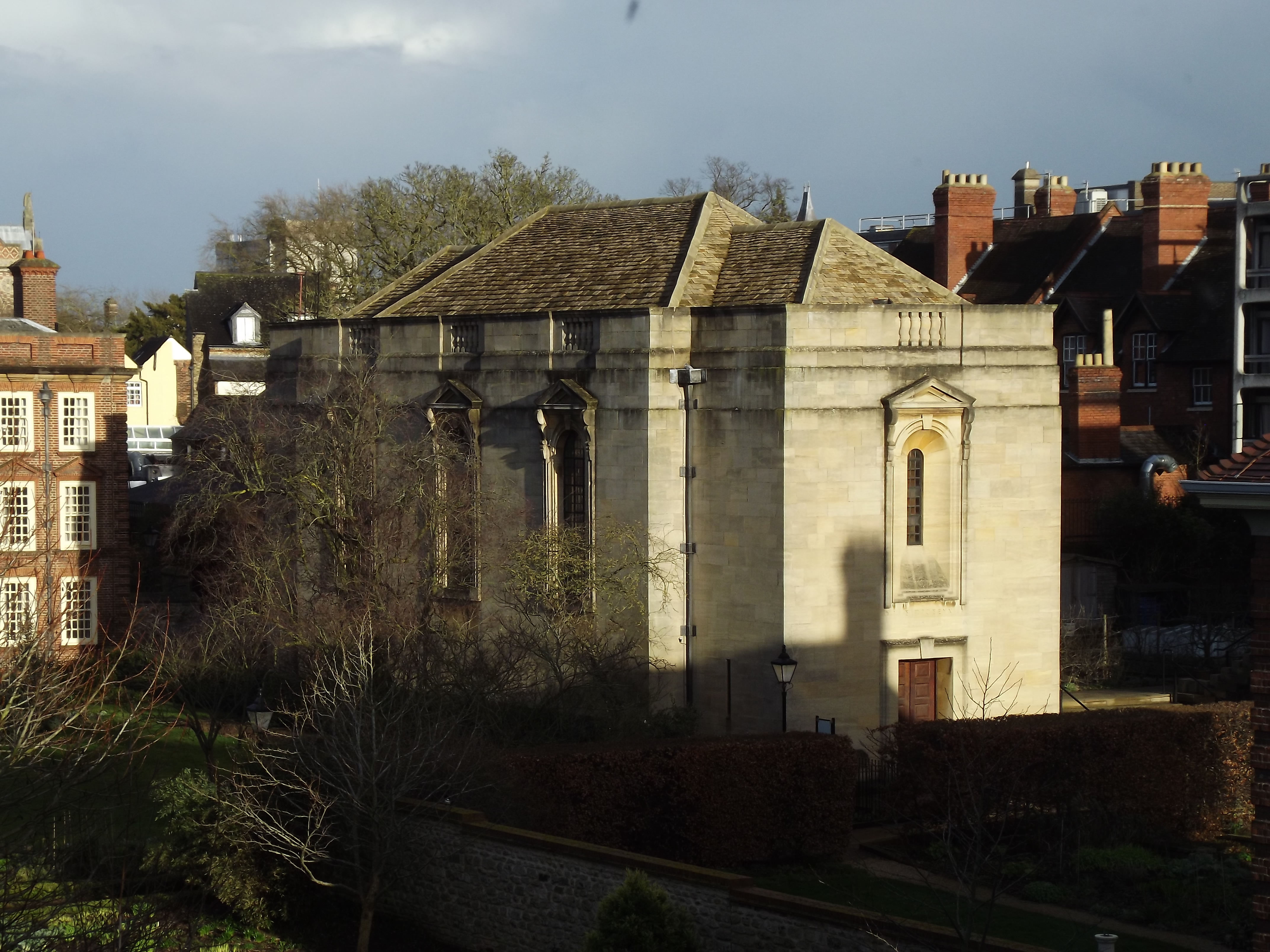 View of Somerville college's chapel